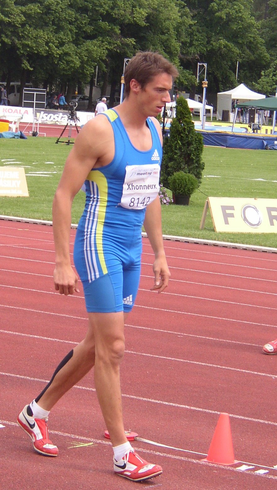 Athlete Frédéric Xhonneux of Belgium prepares for his attempt in long jump during men's decathlon at 4th edition of the TNT - Fortuna Meeting (IAAF World Combined Events Challenge Meeting, Sletiště Stadium, Kladno, Czech Republic, 15 June 2010, 13:59).